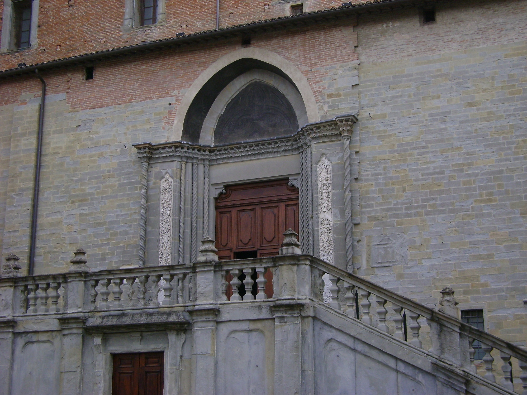 The side door of the cathedral of Citta di Castello, in the province of Perugia, Umbria